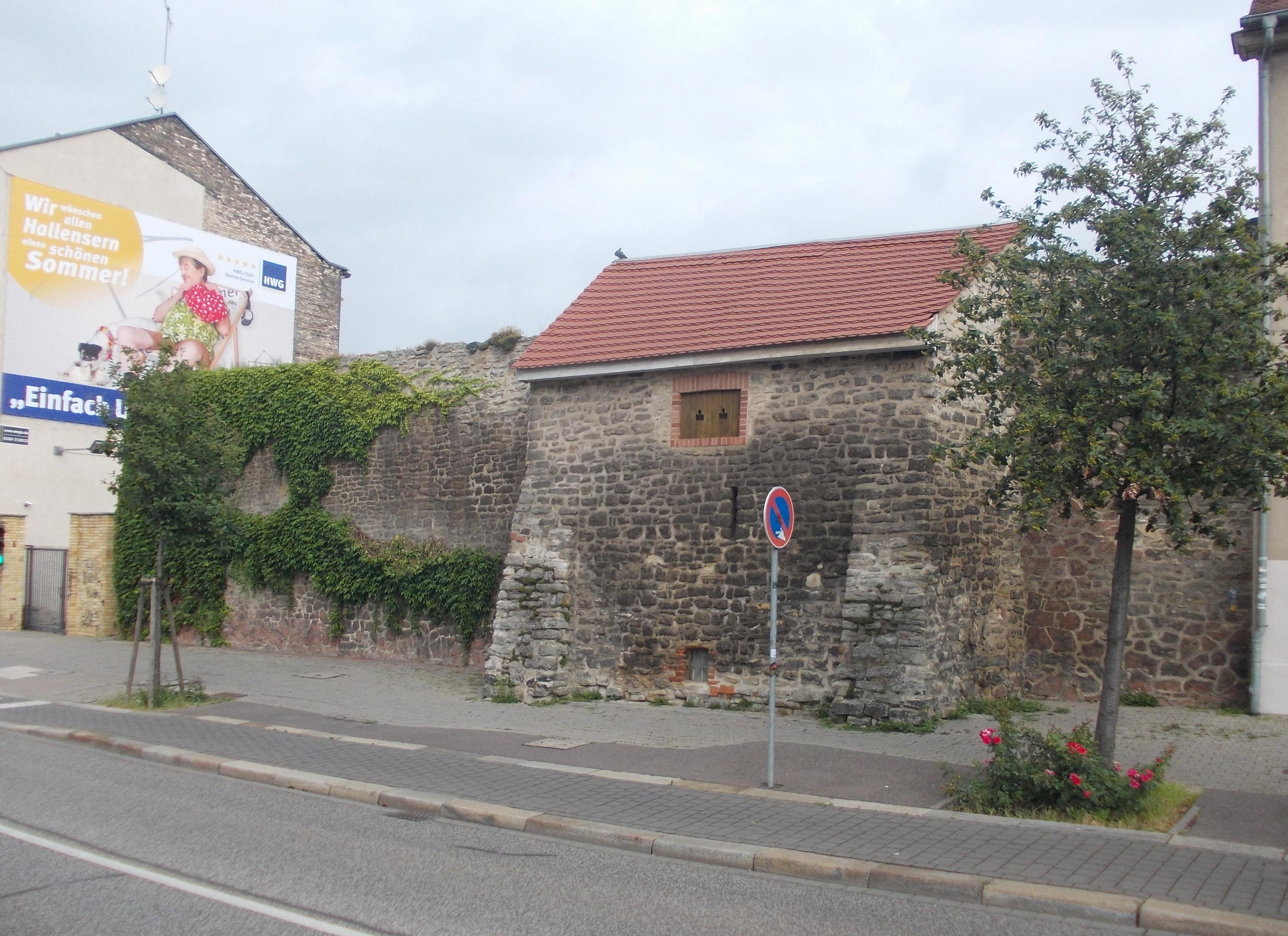 Remains of the city walls at Waisenhausring in Halle/Saale (Saxony-Anhalt)